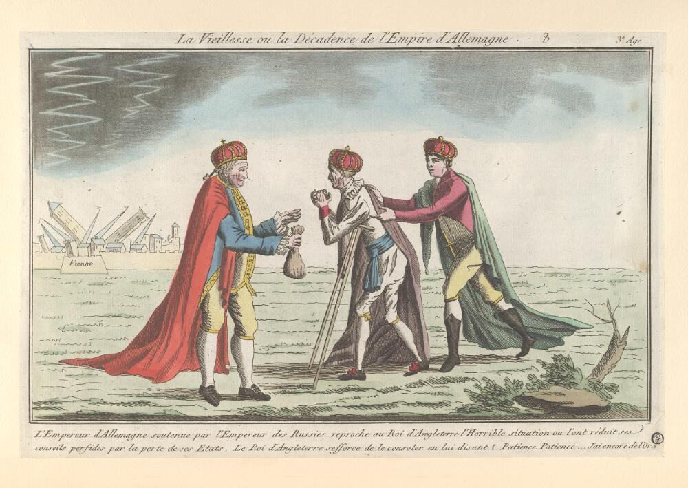 French political cartoon; With owner's stamp: JS